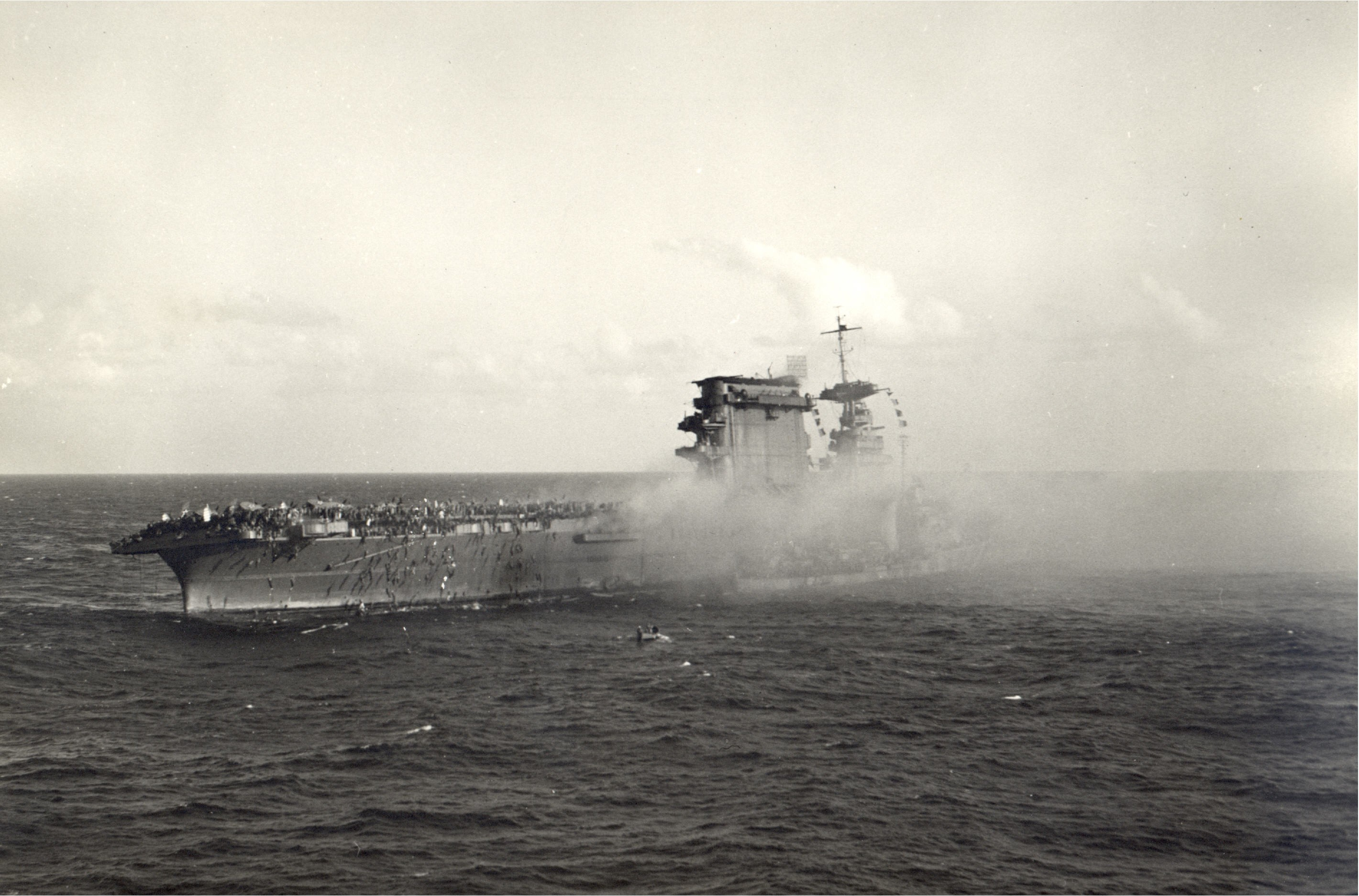 Crewmen abandon ship on board the U.S. aircraft carrier USS Lexington (CV-2) after the carrier was hit by Japanese torpedoes and bombs during the Battle of the Coral Sea, on 8 May 1942. Note the destroyer alongside taking on survivors.